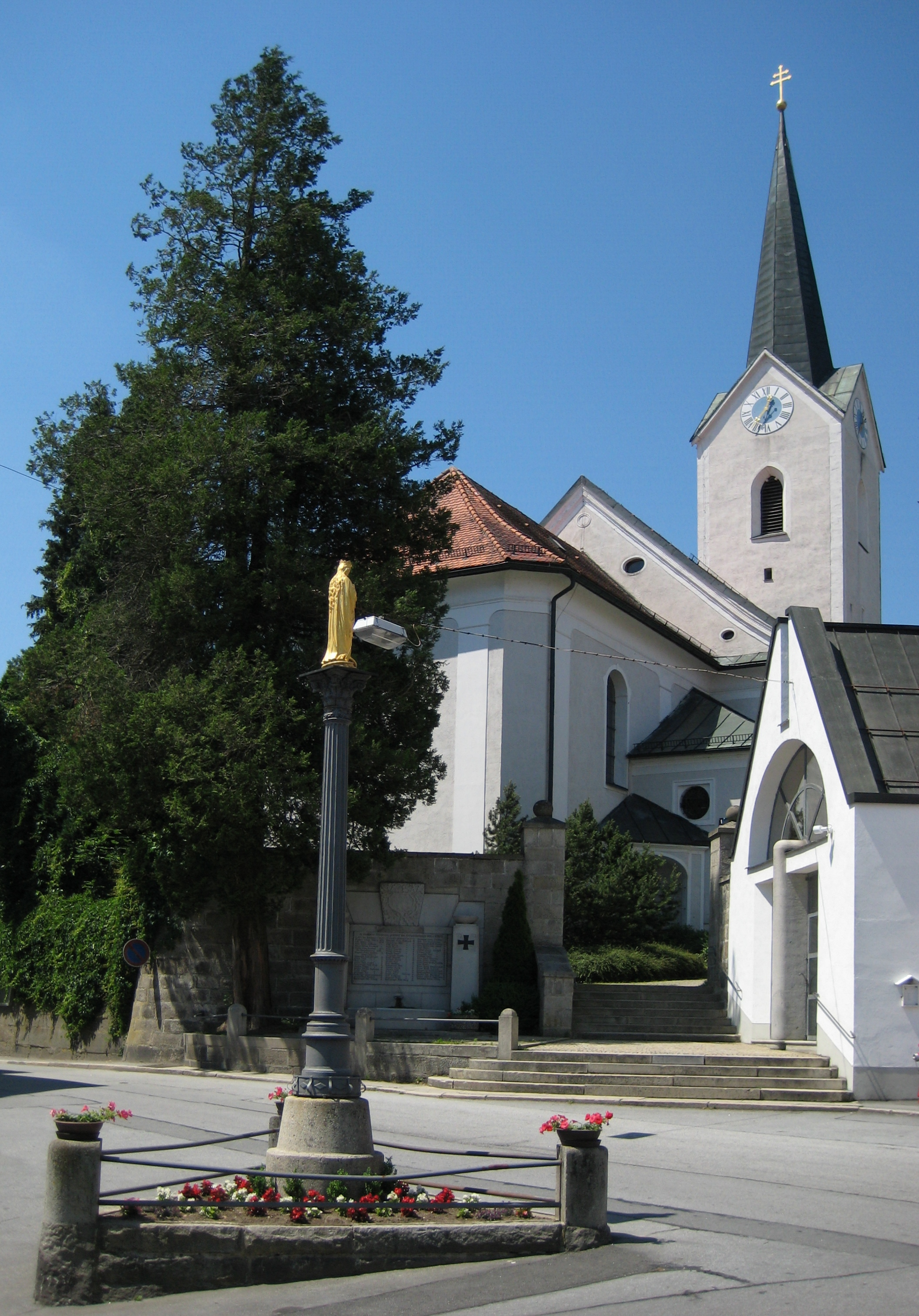 Hutthurm, St Martin Parish Church from east.